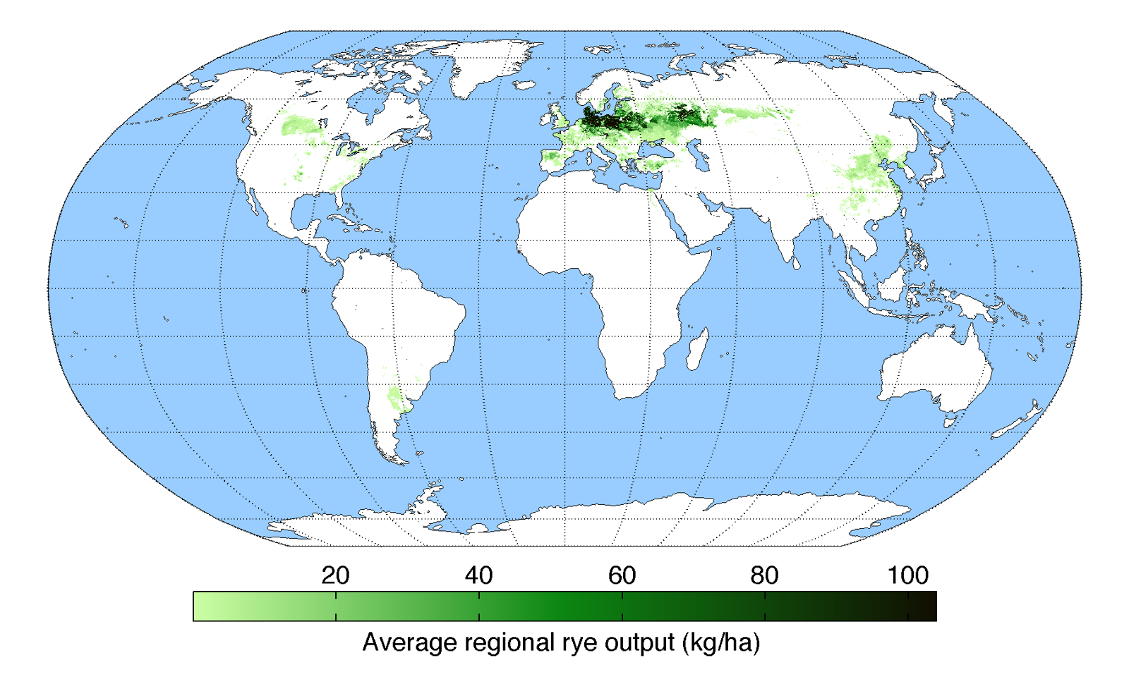 Map of rye production (average percentage of land used for its production times average yield in each grid cell) across the world compiled by the University of Minnesota Institute on the Environment with data from: Monfreda, C., N. Ramankutty, and J.A. Foley. 2008. Farming the planet: 2. Geographic distribution of crop areas, yields, physiological types, and net primary production in the year 2000. Global Biogeochemical Cycles 22: GB1022